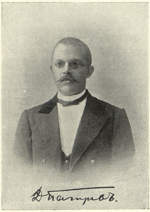 Dmitry Pagirev